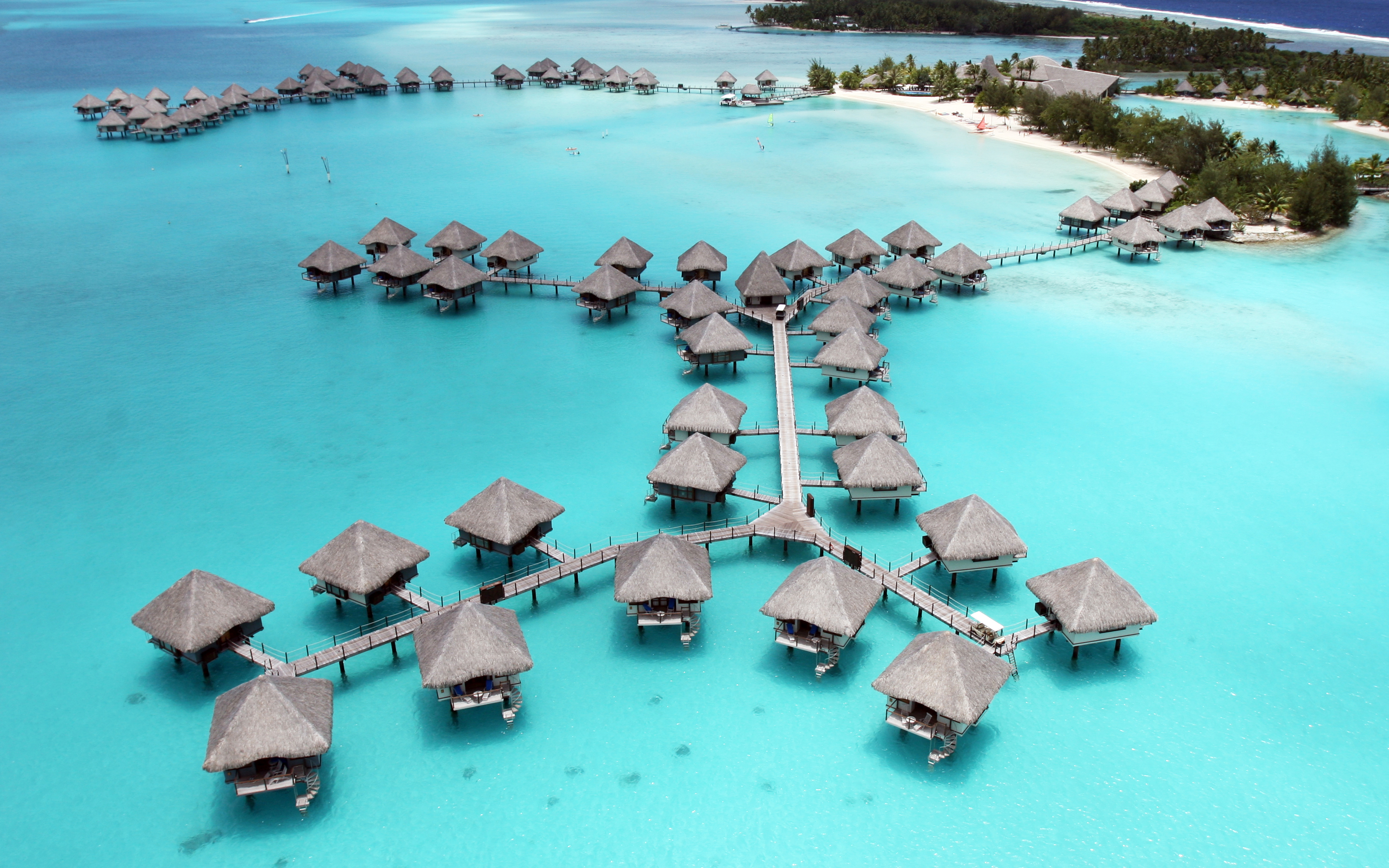 DL2A Le Meridien Bora Bora